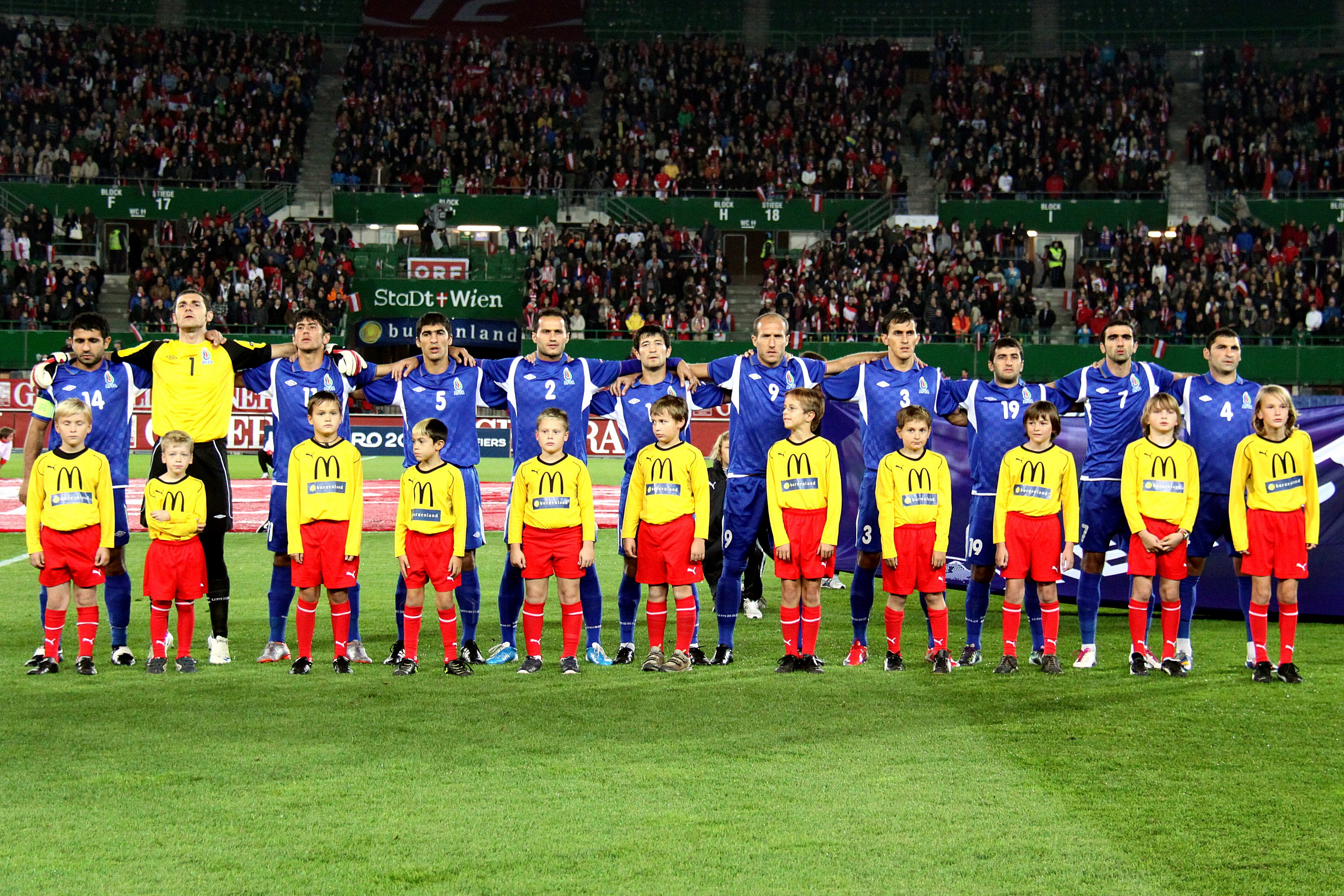 Azerbaijan national football team against Austria in Austria (0:3)